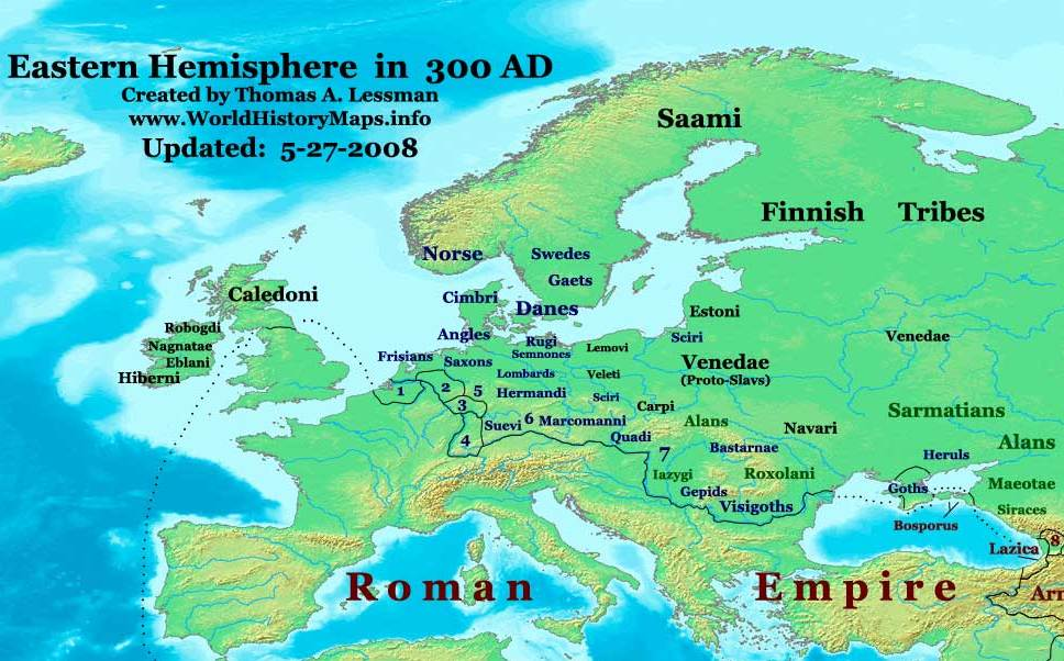 Eastern Hemisphere in 300 AD.